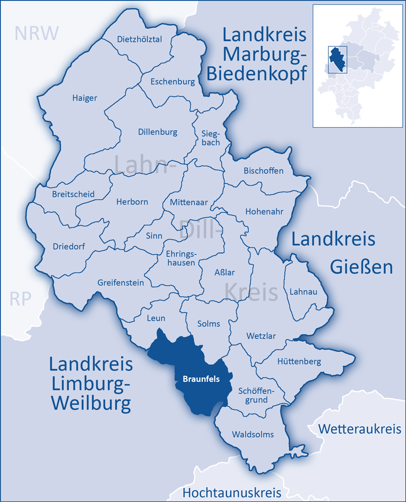 The map shows a district in the area of Lahn-Dill-Kreis